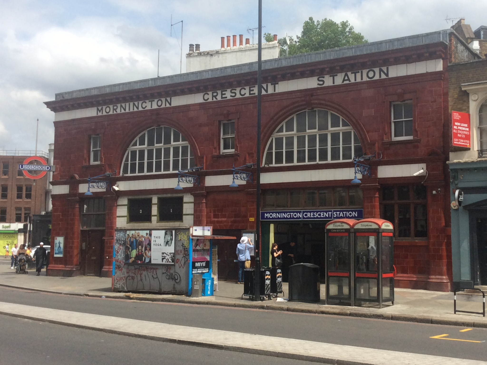 Mornington Crescent tube station entrance July 2017